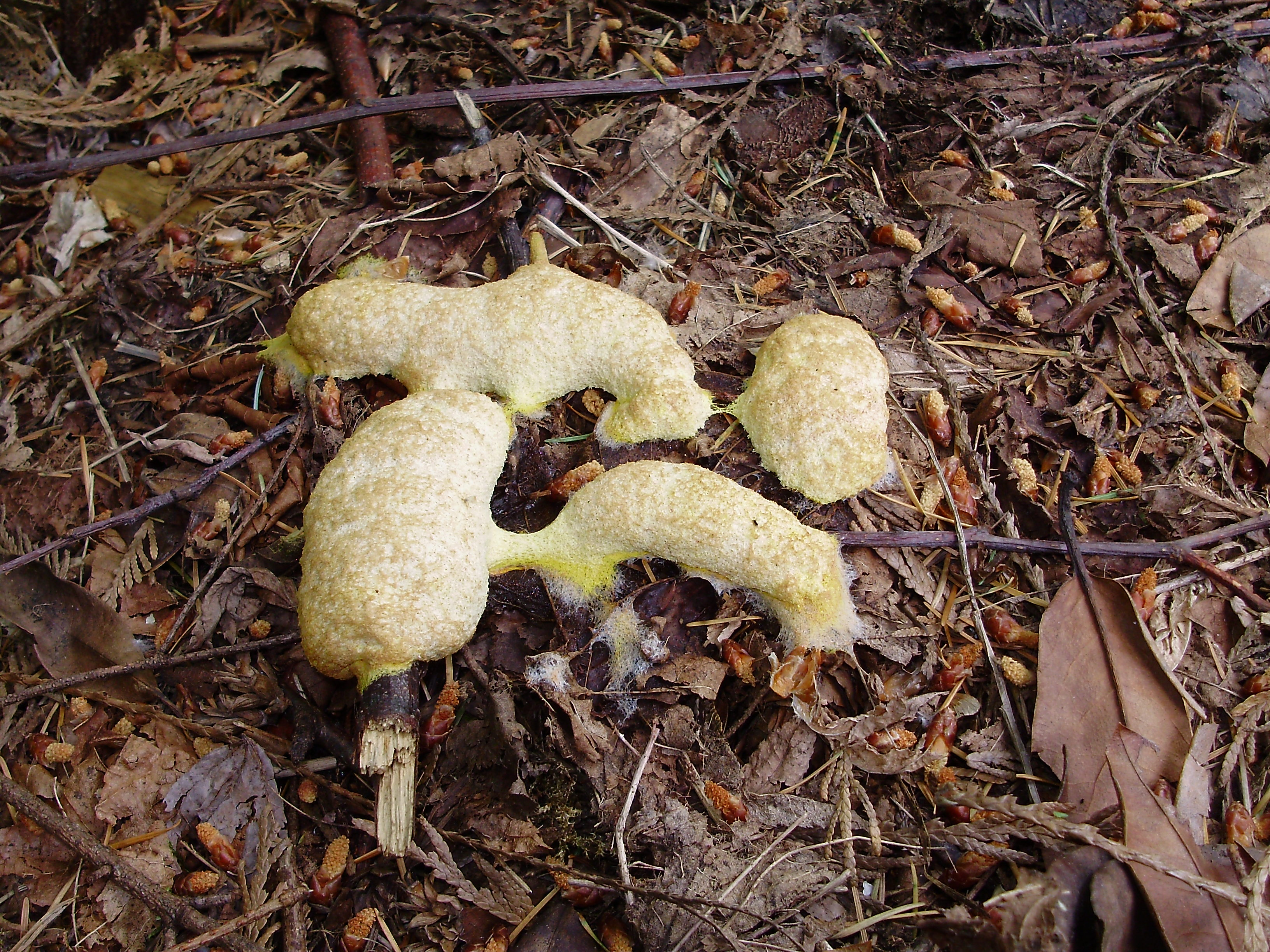 A Slime mold I found in my backyard. Taken in Langley, BC